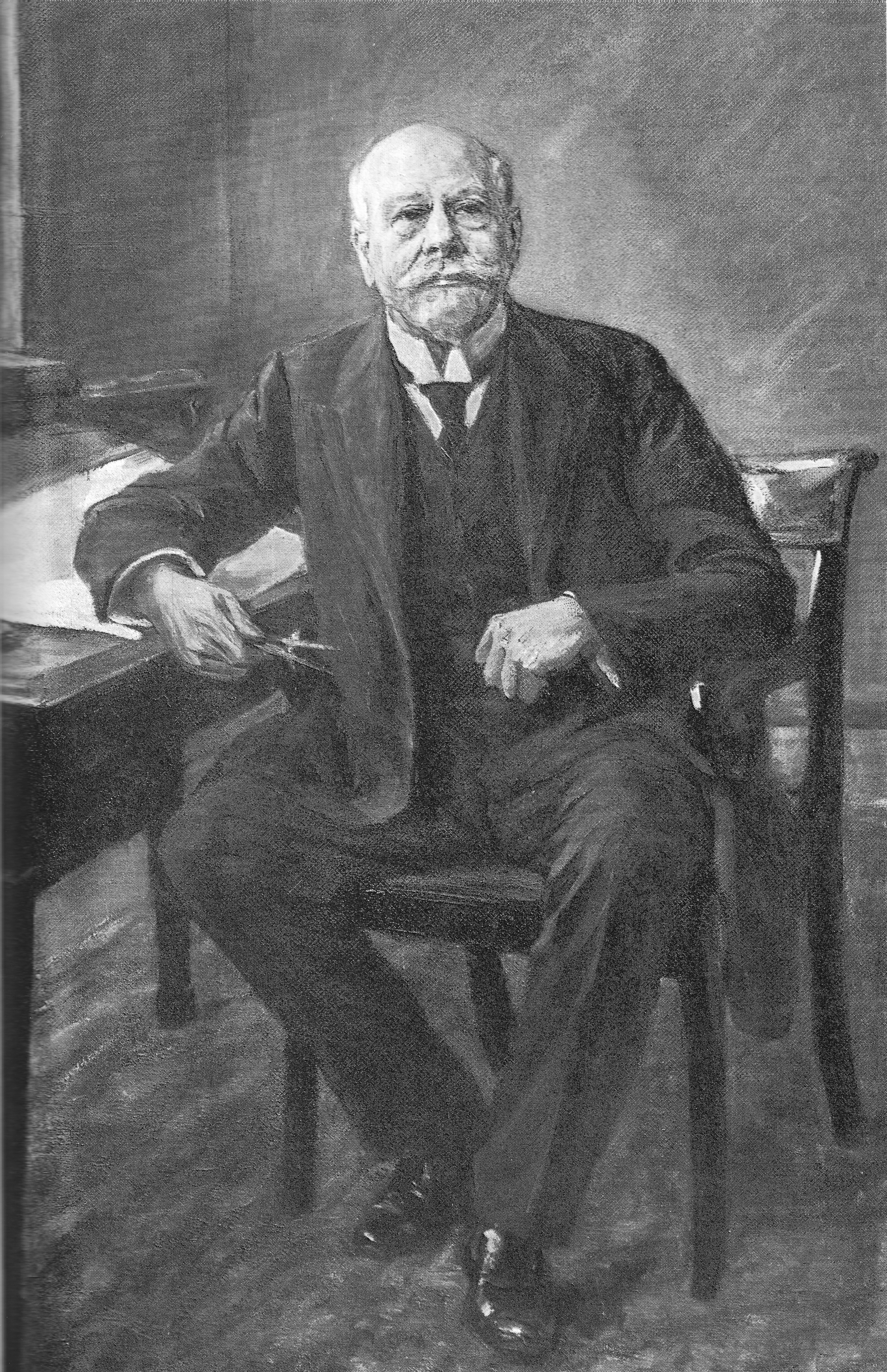 Emil Moritz Rathenau (1838-1915), father of Walther Rathenau and Edith Andreae, paintes by Max Liebermann (* 20. Juli 1847 in Berlin; † 8. Februar 1935 ebenda)